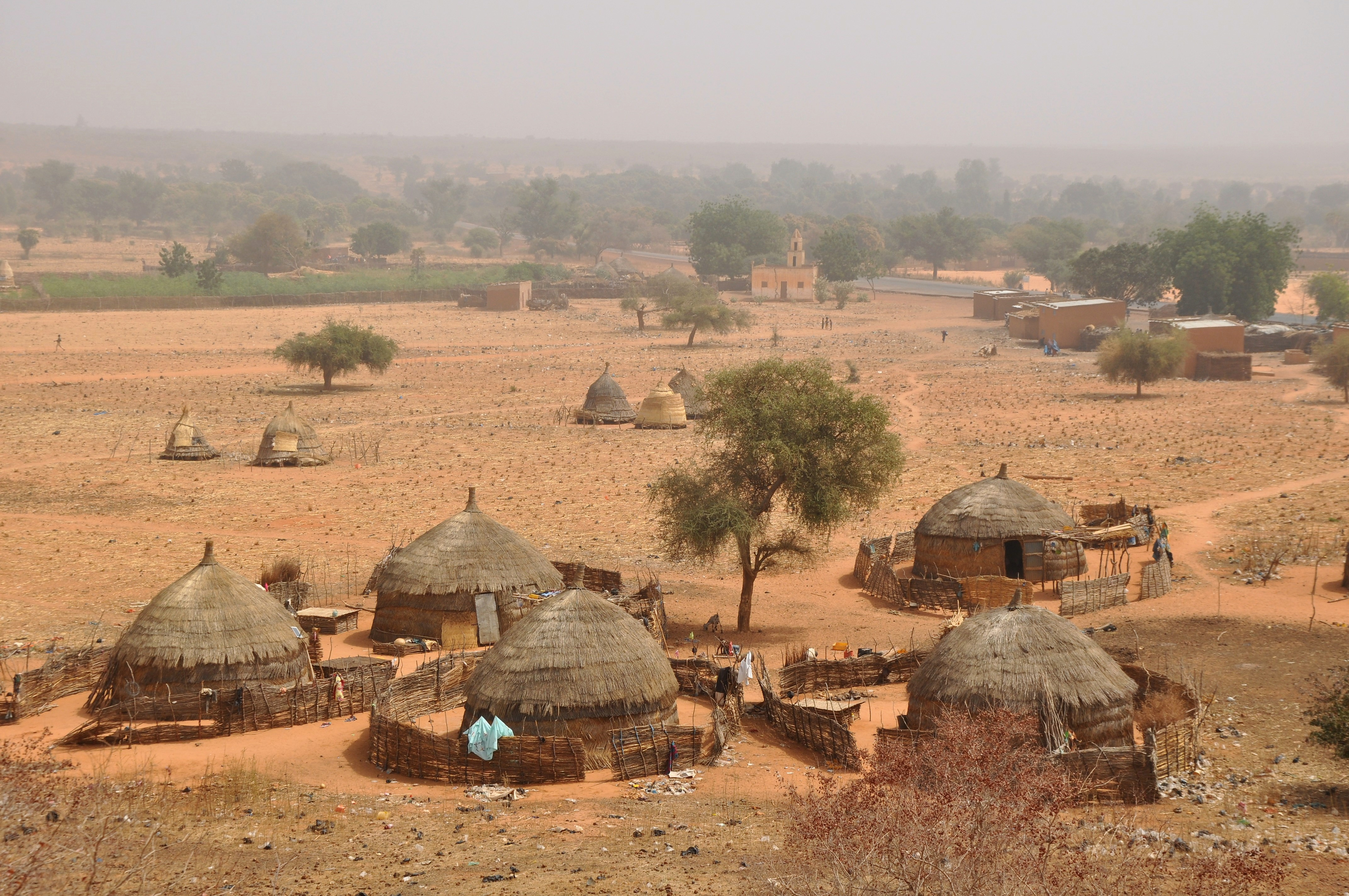 Bougoum, a village just a few kilometers to the southwest of Niamey and still within Commune 5 (the 5th municipality) of Niamey, in Niger. Note the road Niamey - Torodi and the mosque in the distance (center).